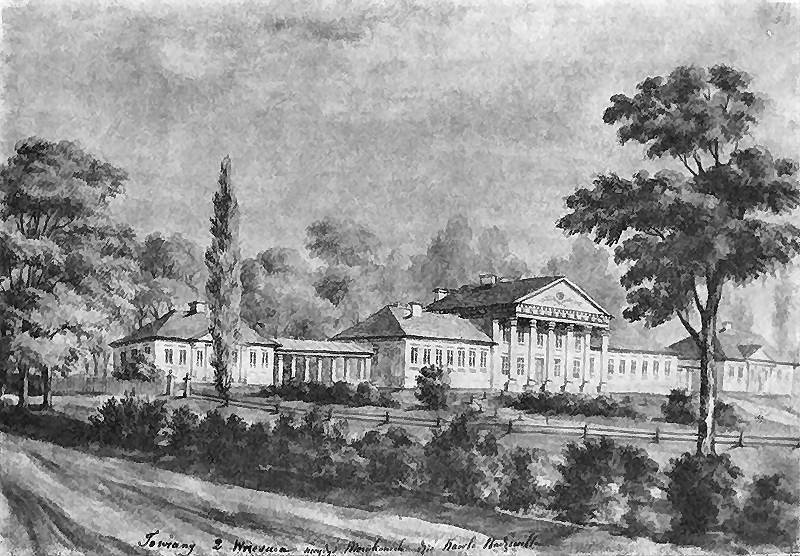 Manor of Taujėnai, Lithuania